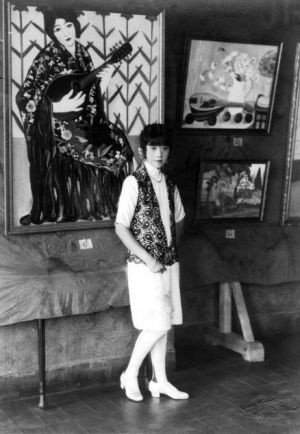 Picture of Guan Zilan (1903-1986) at an exhibition in 1930. In the background are two paintings with mandolins. This was a solo exhibit of Guan Zilan's artwork at the Shanghai Xiangyang Academy of Fine Arts, Hua'an Building. She gave the exhibit after her return to Shanghai, from studying in Japan. All the artwork in the image were works she created. The painter Guan Zilan is standing in front of the artworks.